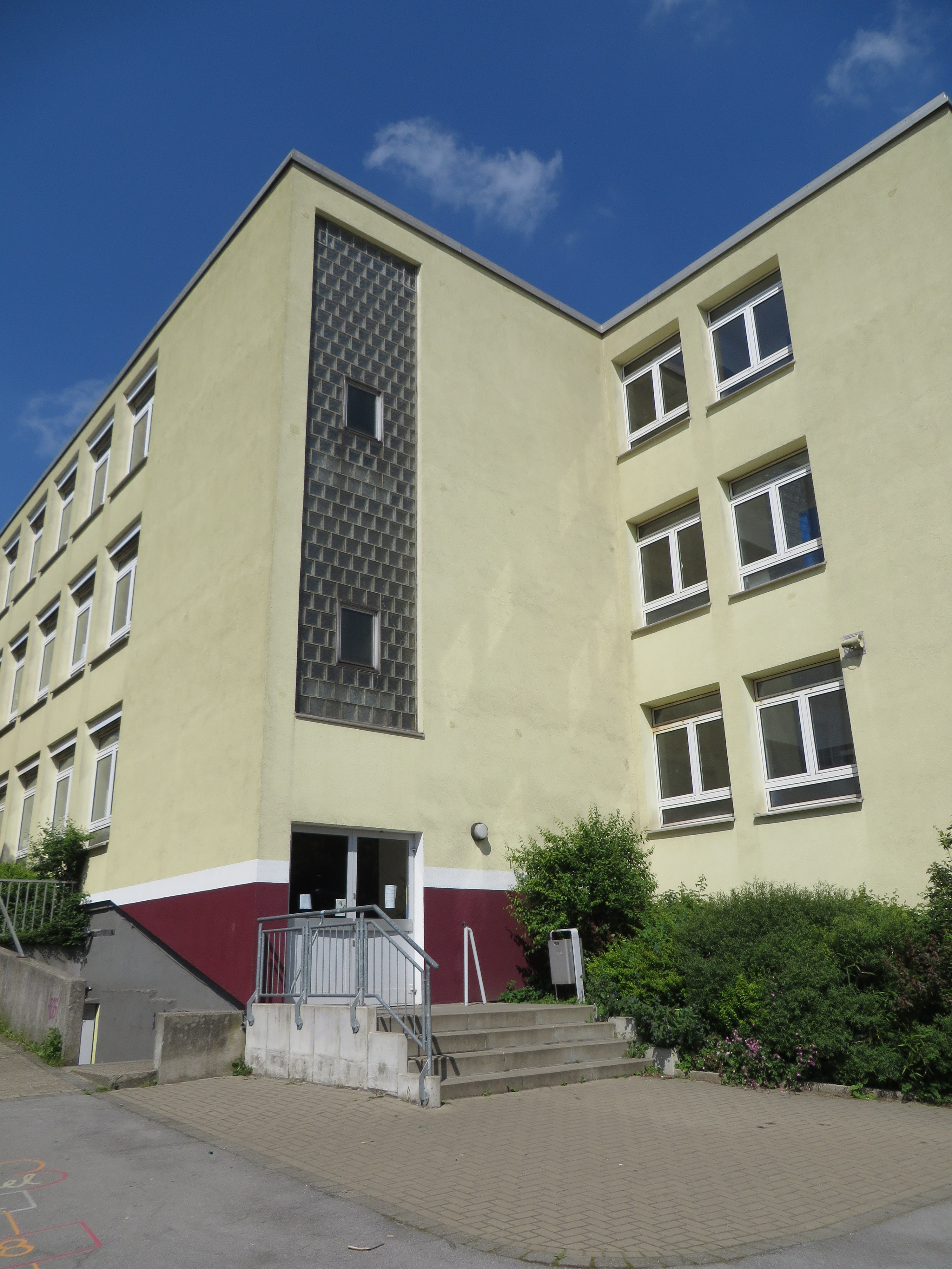 New building of school Albert-Martmöller-Gymnasium in Witten, Germany